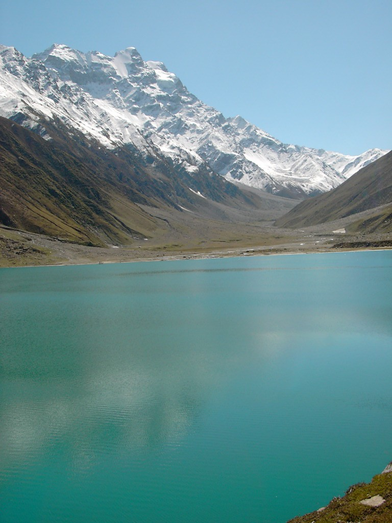 Saif ul Maluk Lake, Kaghan Valley. in Saiful Malook National Park, Khyber Pakhtunkhwa, Pakistan. Photo by Joonas Lyytinen.